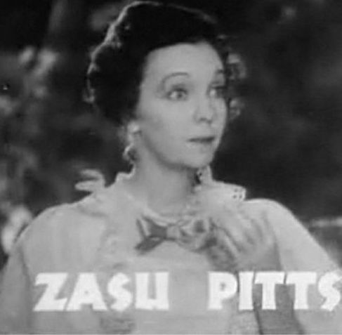 Screenshot of ZaSu Pitts from the trailer for the film Ruggles of Red Gap